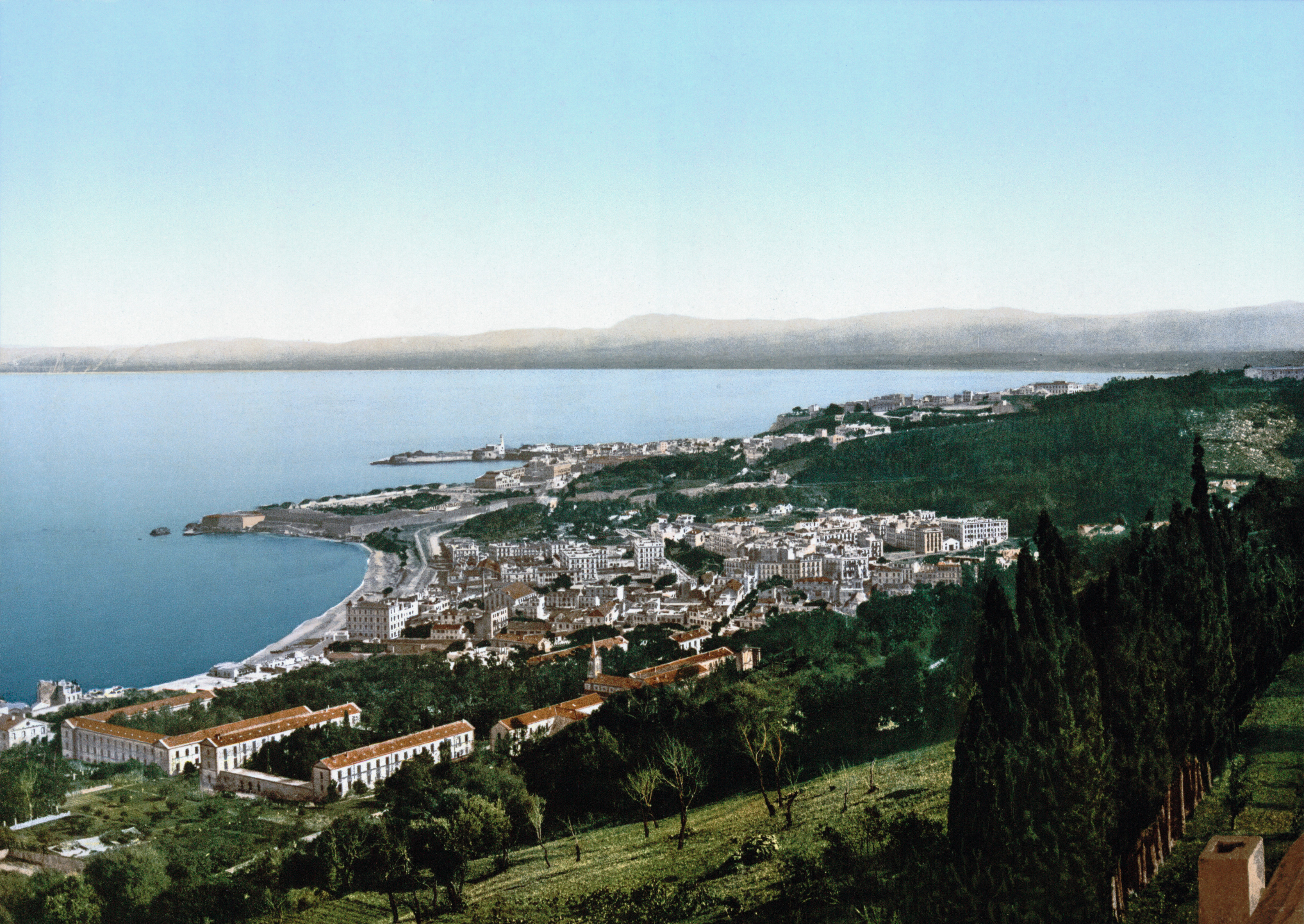 View of Algiers from Notre Dame d'Afrique (Algeria, 1899).